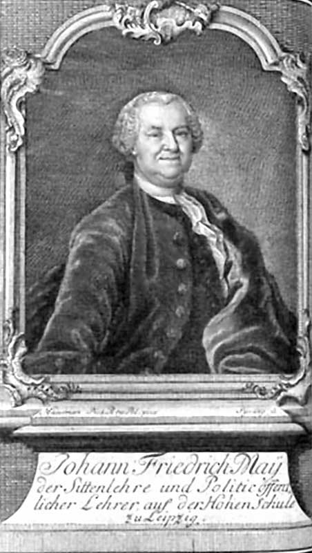 Johann Friedrich May (1697-1762) german Ethnologist and political scientist